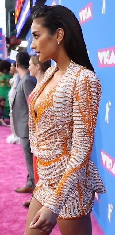 Shay Mitchell at 2018 VMA Red Carpet